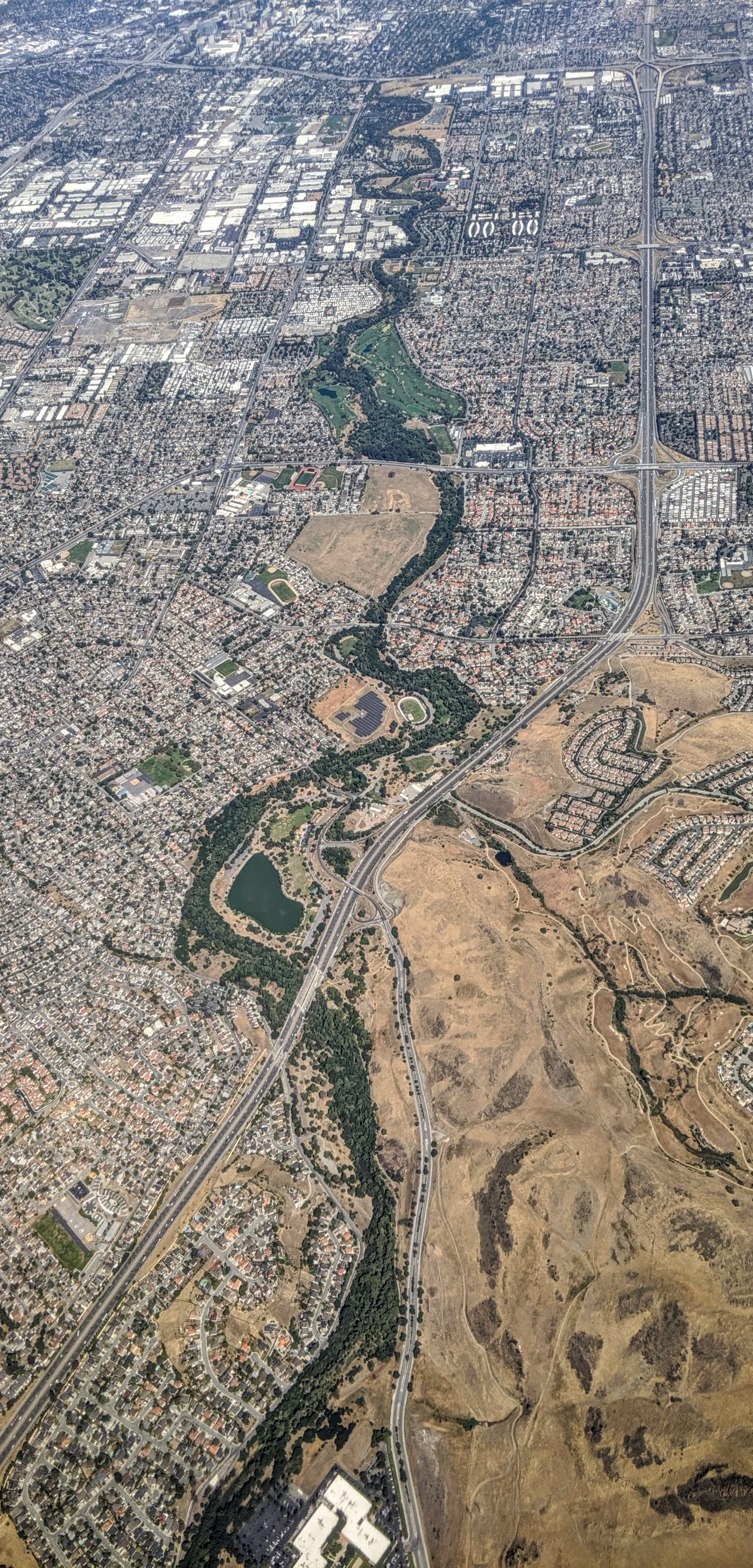 Coyote Creek aerial view from the south in San Jose, from south of Hellyer County Park up to I-280 (280/101 interchange at top right)